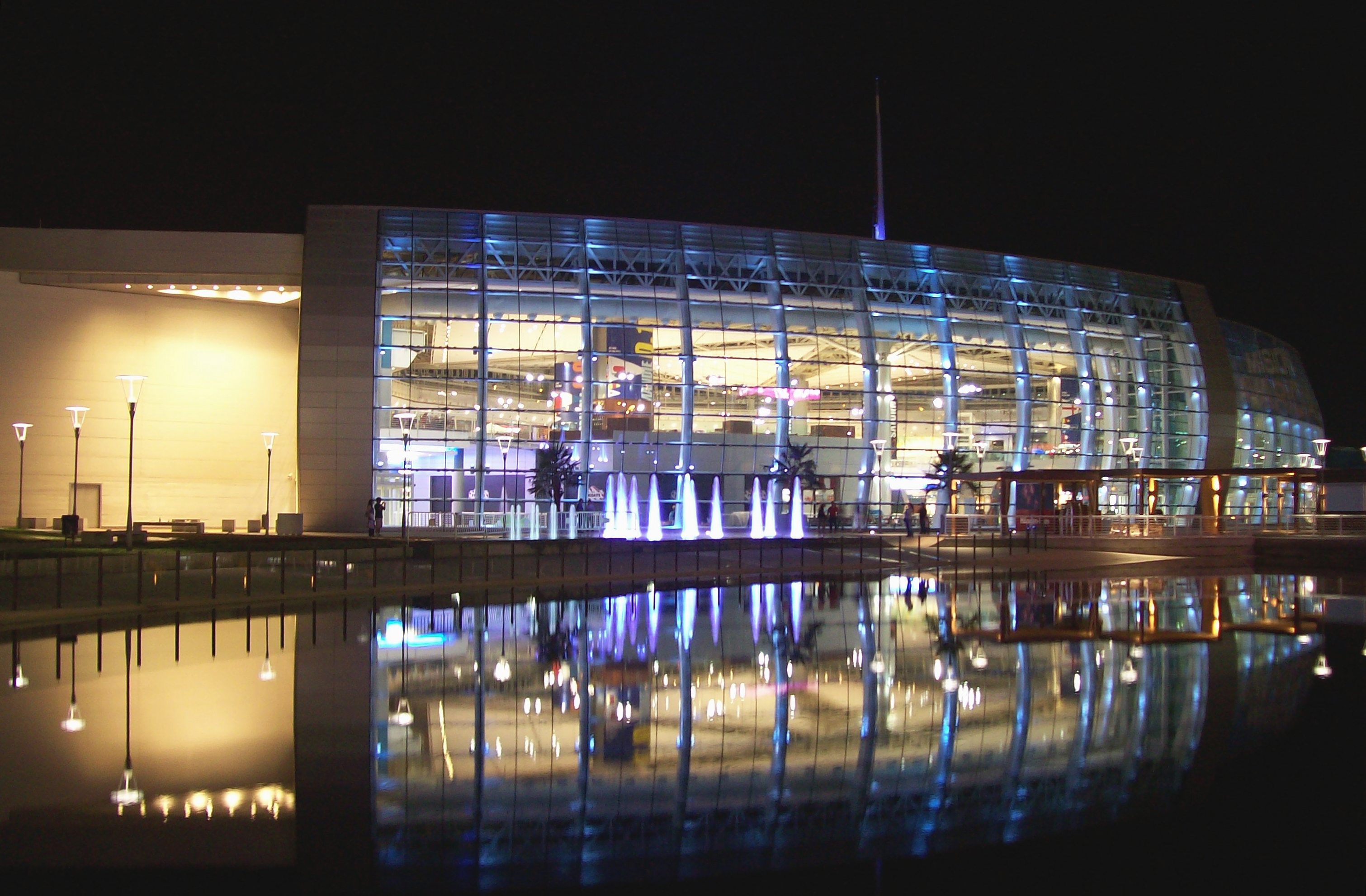 Night view of H2O mall in Rivas-Vaciamadrid (Community of Madrid, Spain).